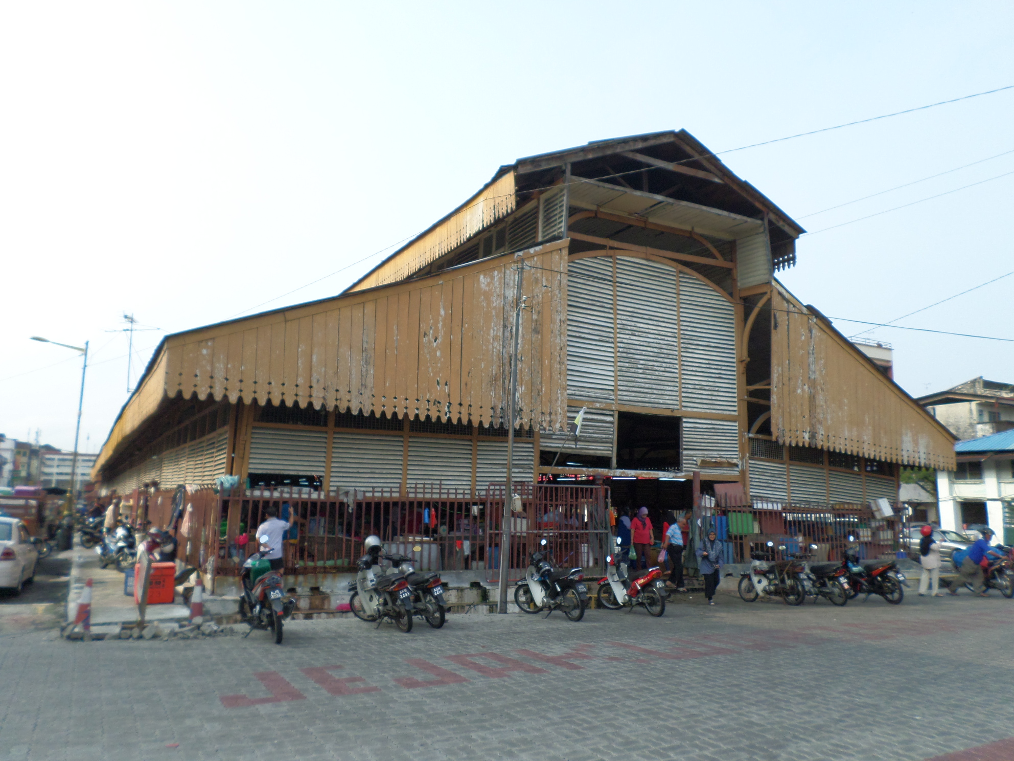 Taiping Wet Market, Taiping, Larut, Matang and Selama, Perak, Malaysia